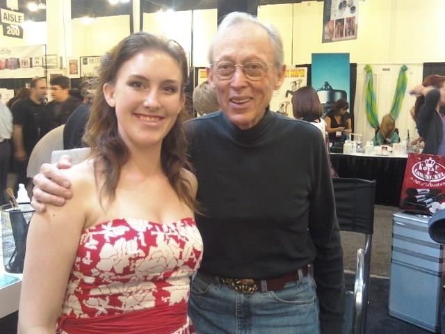 "Dick Smith with his student, Anastasia Casini"